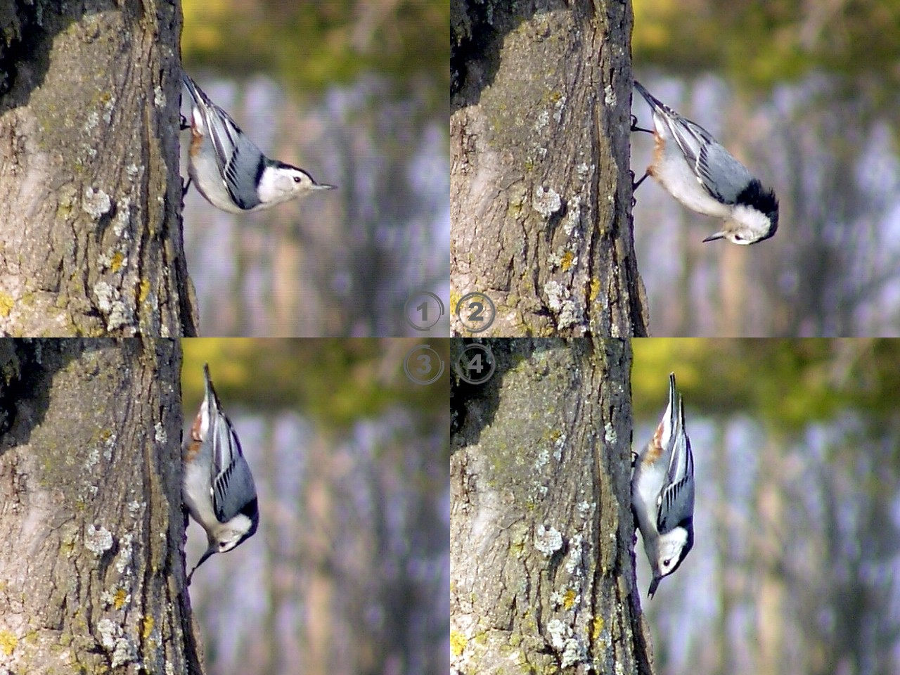 Lunching White-breasted Nuthatch (Y. Roiter, Potsdam, NY, April 8, 2005).